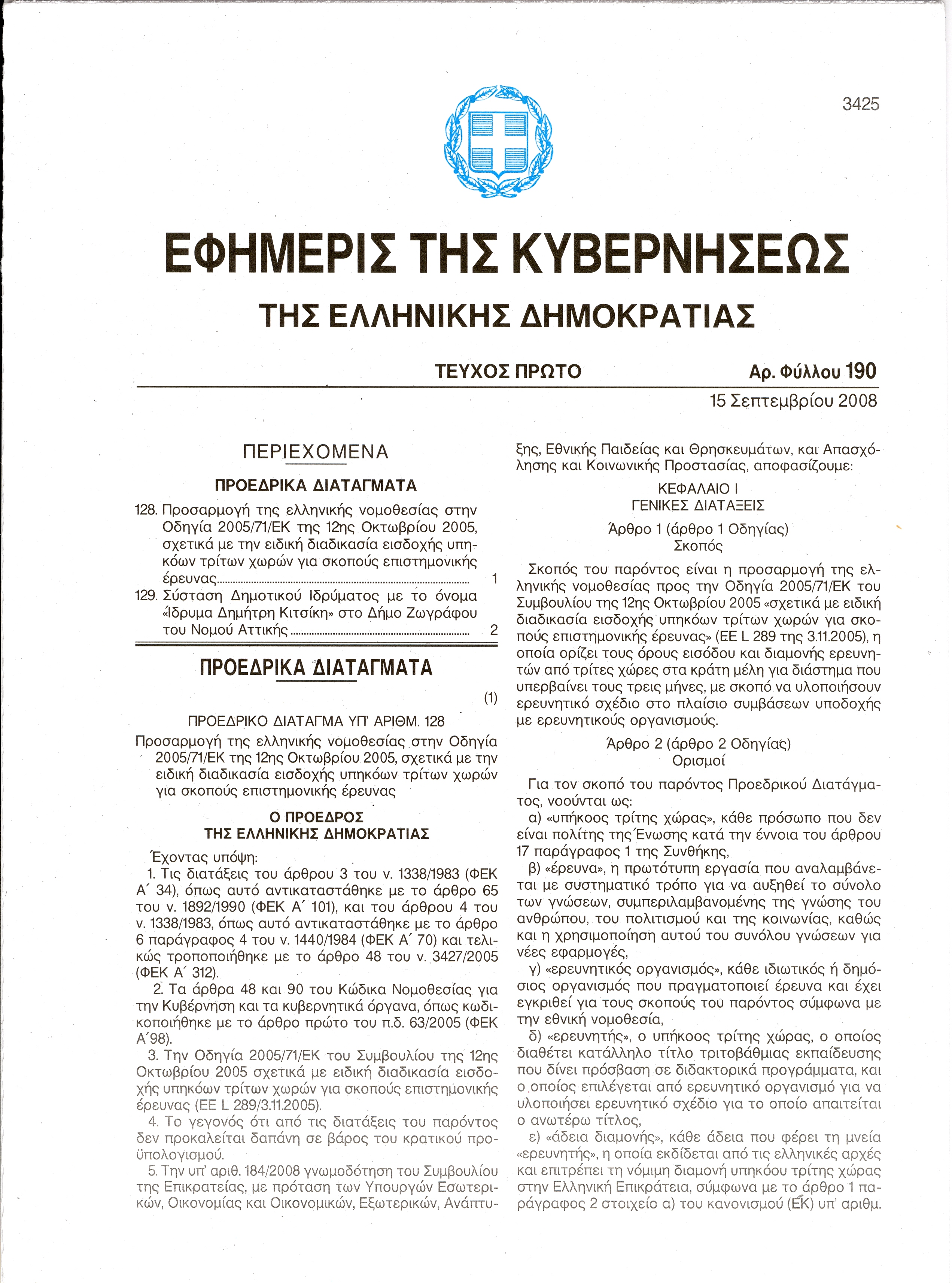 Presidential Order under folio no.129 published in the Gazette of the Government of Greece (ΦΕΚ), which formally establishes the Dimitri Kitsikis Public Foundation (ΝΠΔΔ). (1 of 3)